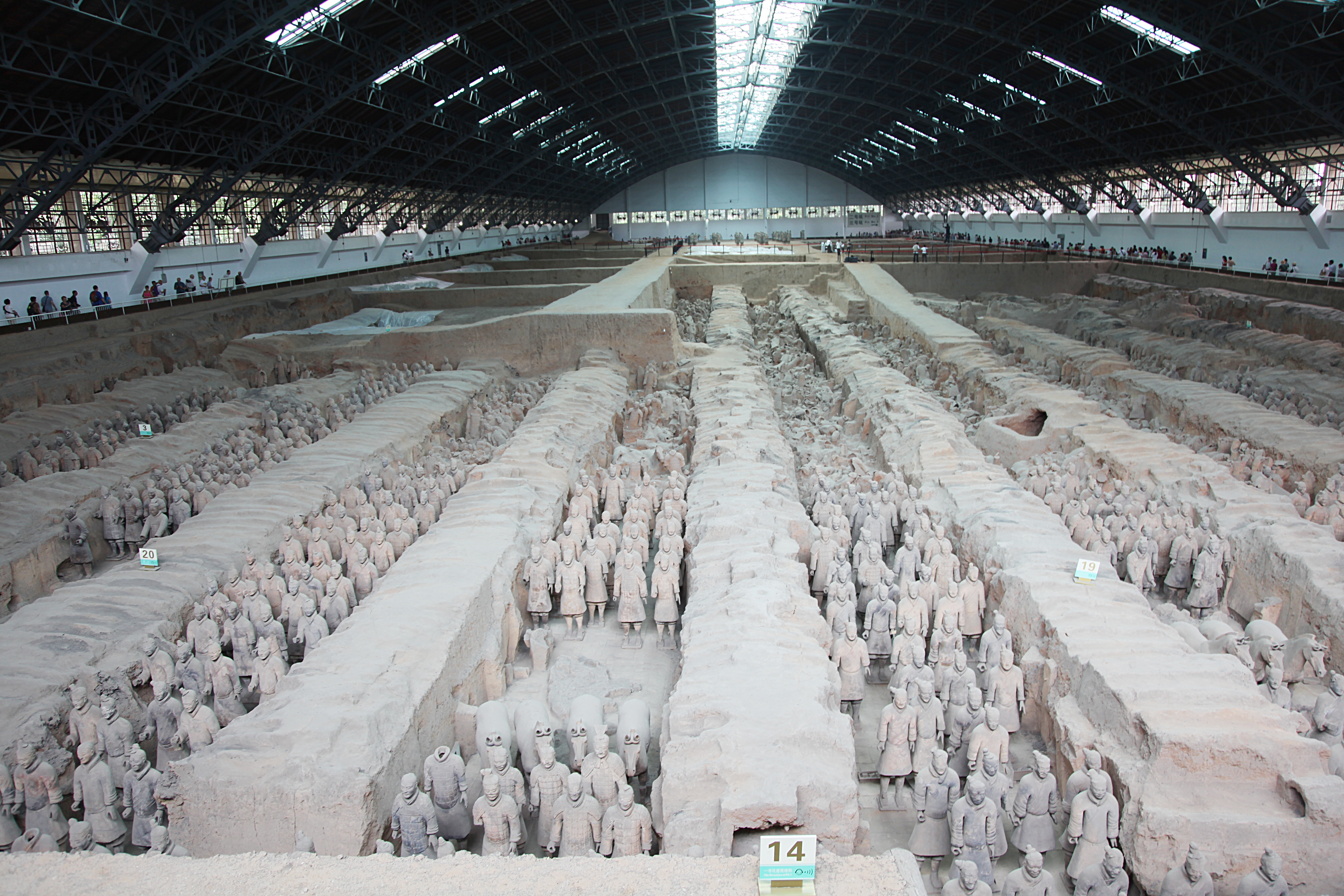 Soldiers of the teracotta army in pit 1. Xian, China.